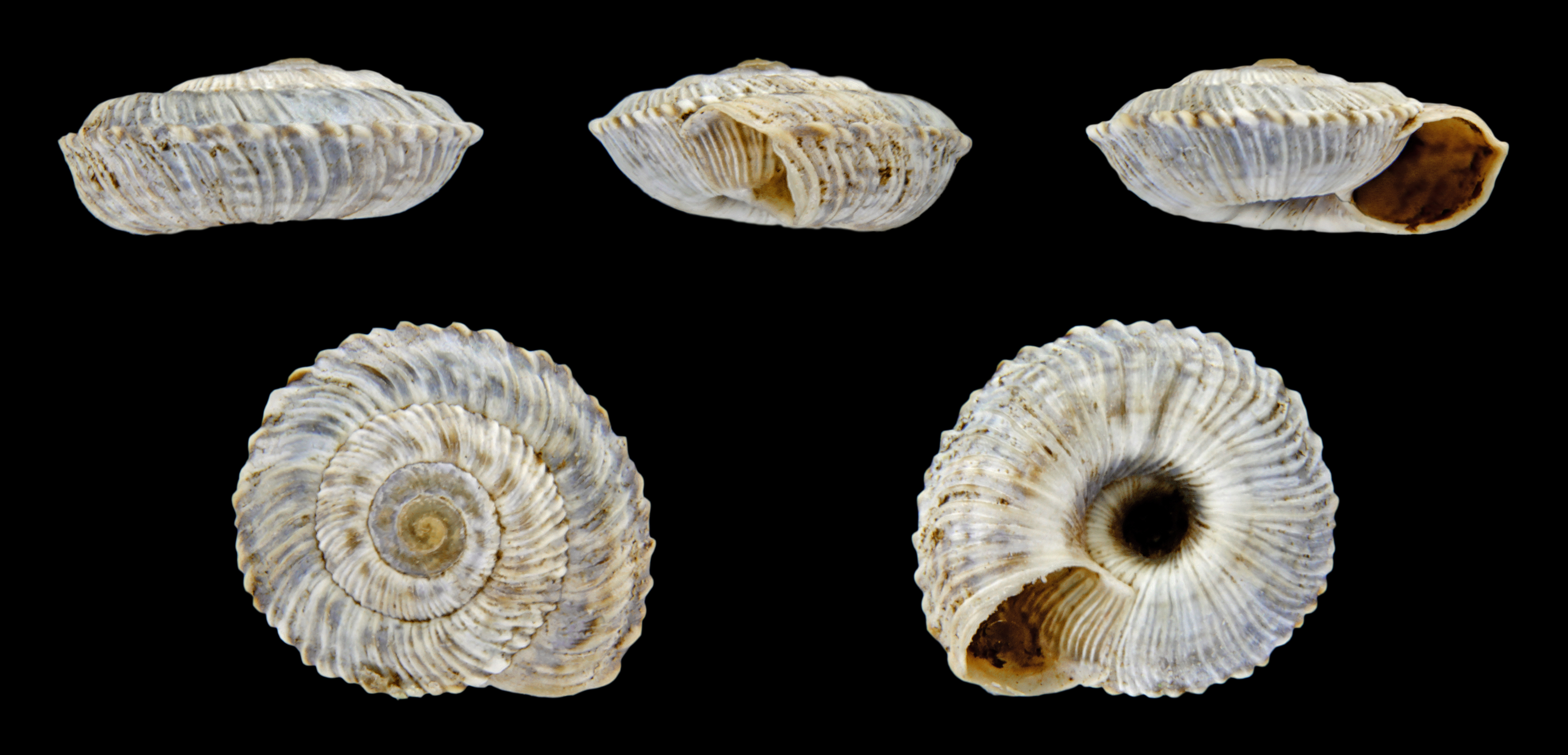 Diameter Length 0.6 cm; Originating from Mirador ses Barques near Sóller, Majorca, Spain 39°47′27.47″N 2°43′28.82″E / 39.7909639°N 2.7246722°E; Shell of own collection, therefore not geocoded. Dorsal, lateral (right side), ventral, back, and front view.